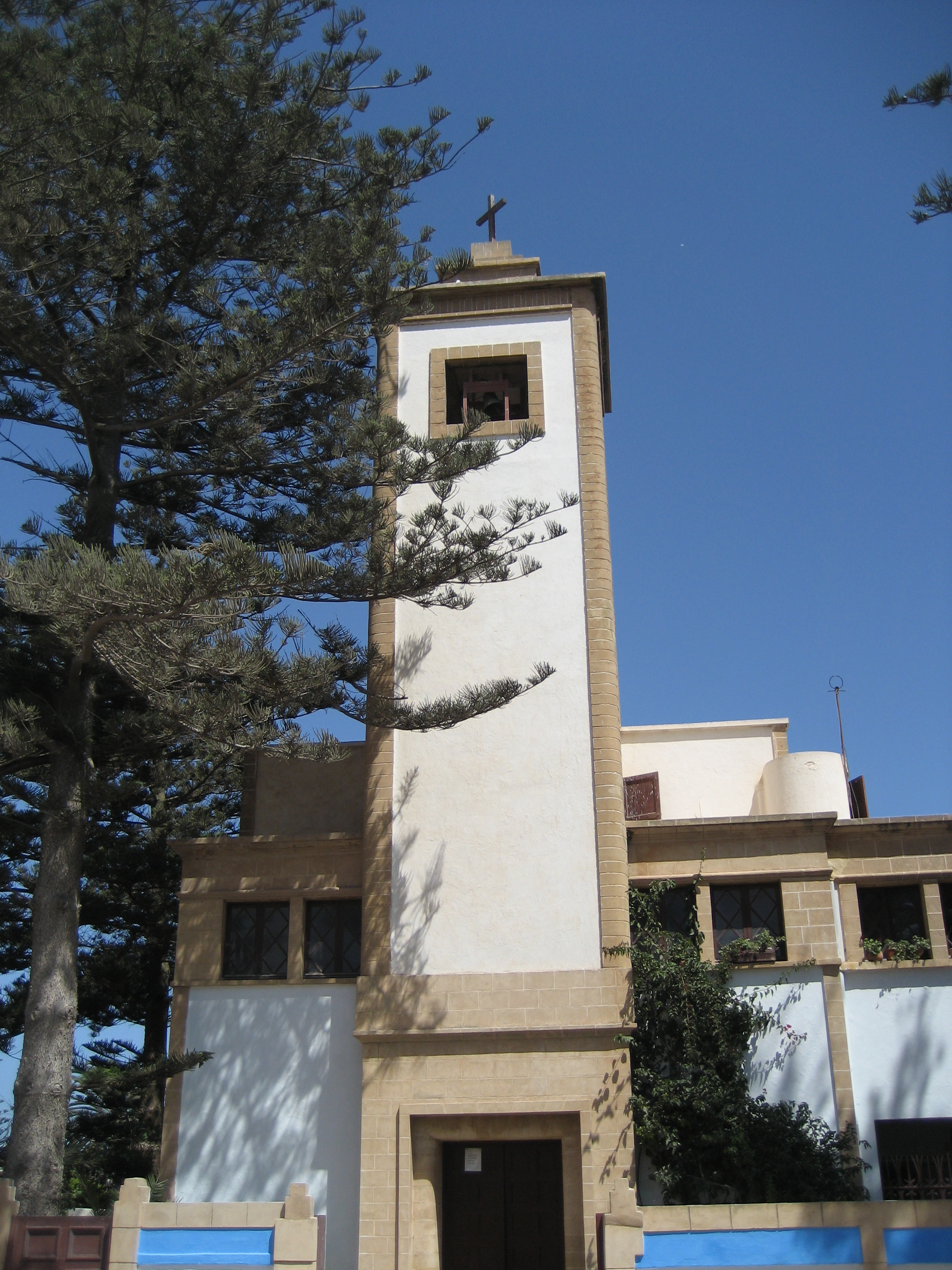 Notre-Dame de l' Assomption in Essaouira (Morocco). Catholic church.